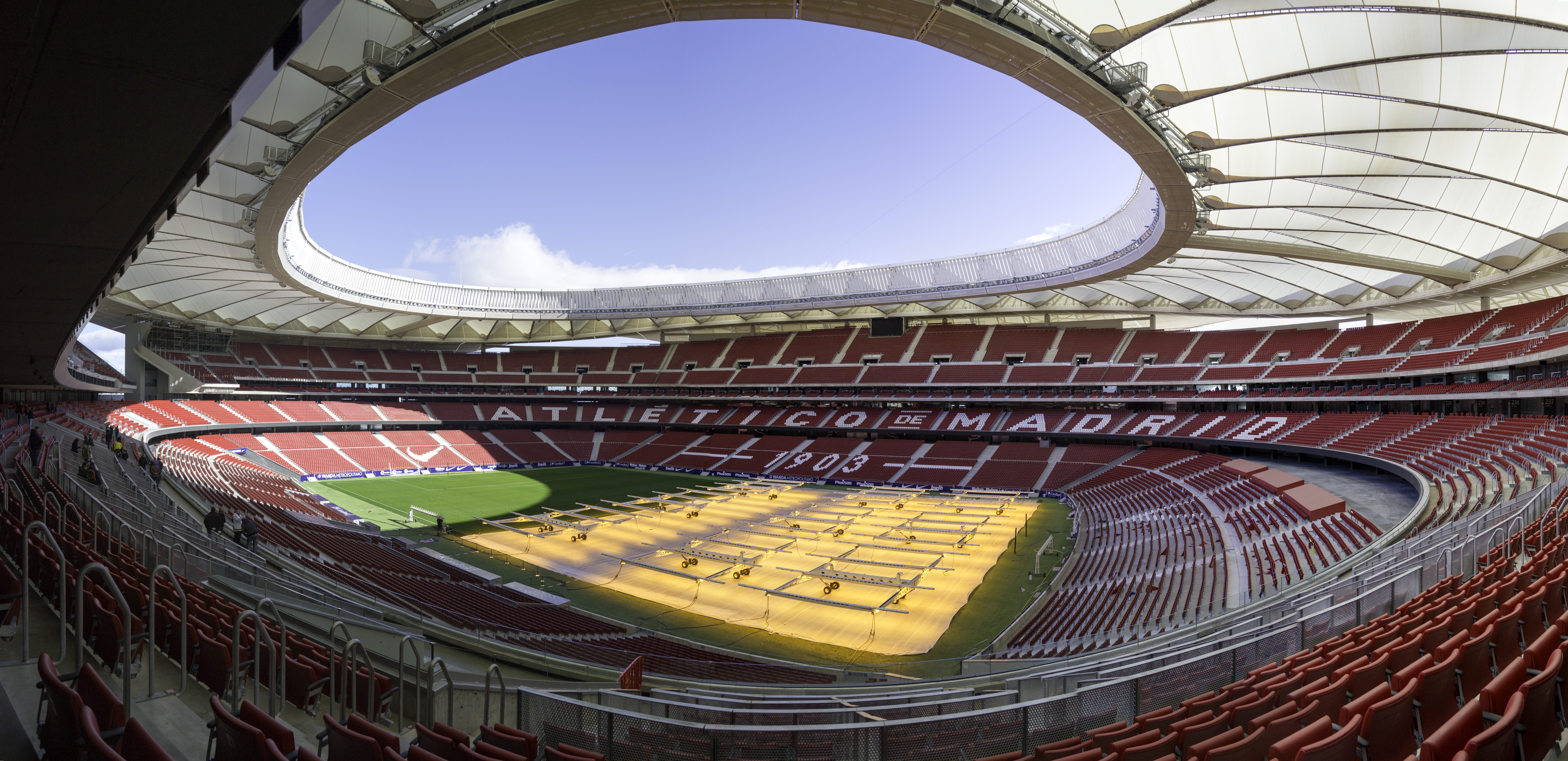 Panoramic view of the Wanda Metropolitano stadium, home of Atlético de Madrid.